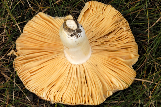 Russula spec. (maybe Russula integra) from Commanster, Belgium. The determination of the species shown in this picture has been verified.